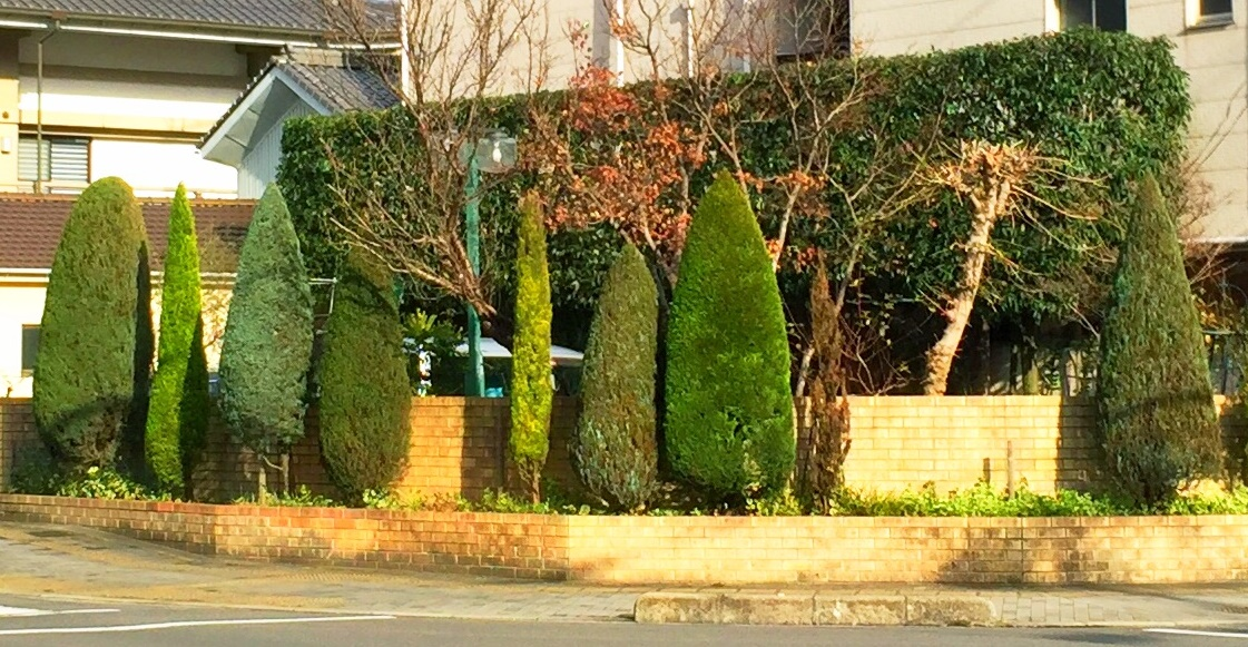 CONIFERS (JAPAN)